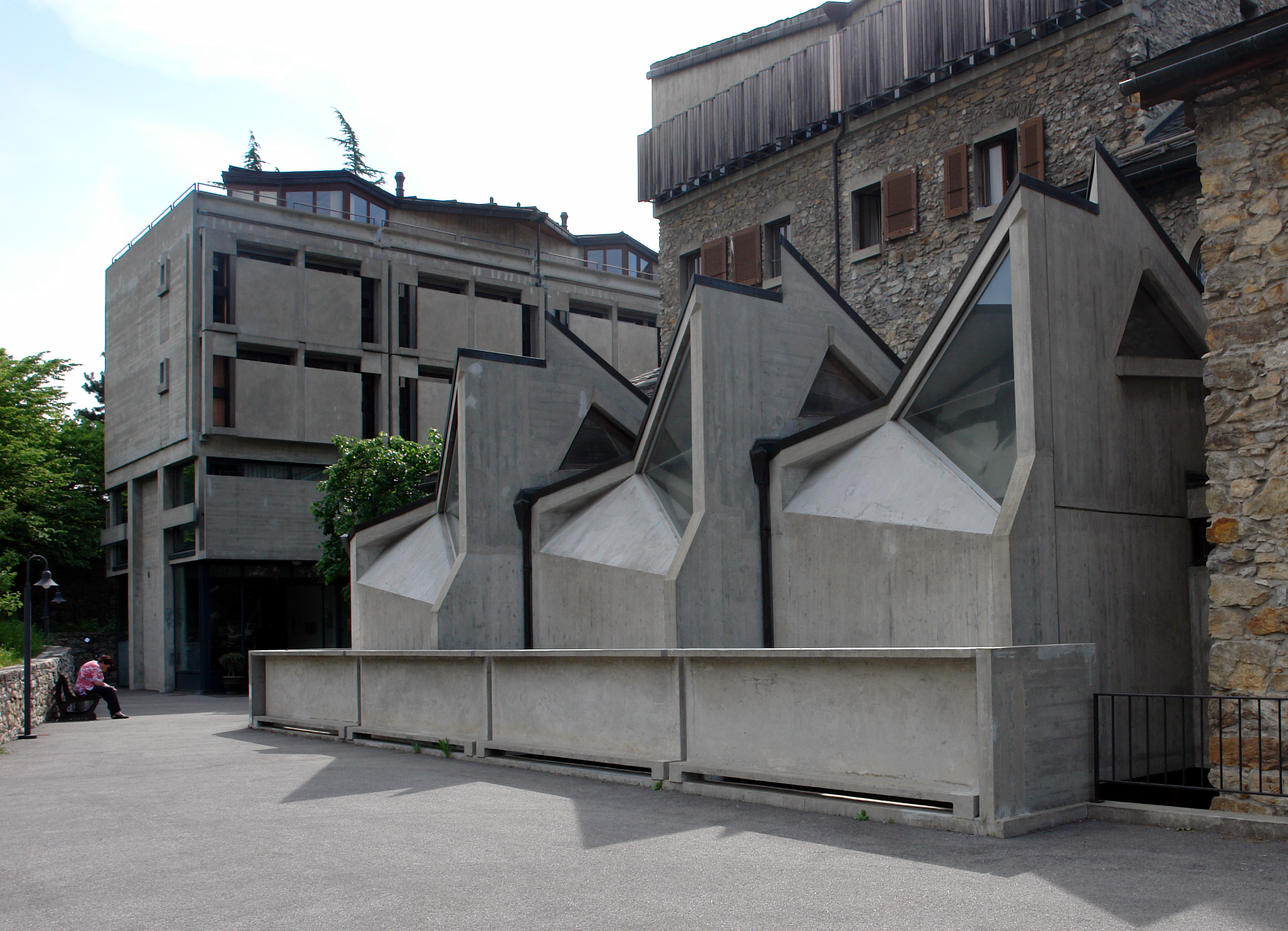 Former Capuchin Monastery, Sion, Valais, Switzerland; 1961-68, Architect: Mirco Ravanne